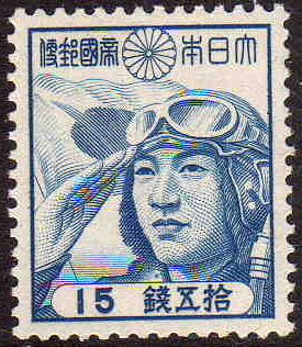 Japanese boy aircraftsman 15sen stamp